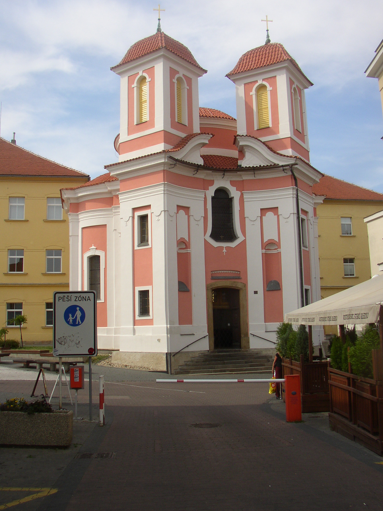 St Florian Chapel in Kladno, Czech Republic, designed by Kilián Ignác Dientzenhofer. Front view from St Florian Street.